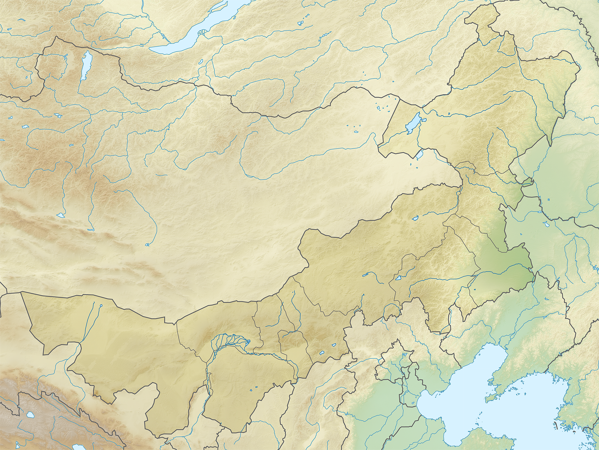 Location map of Inner Mongolia, People's Republic of China Equirectangular projection, N/S stretching 141 %. True scale parallel: 45°00' N. Geographic limits of the map: N: 53.5° N S: 37.0° N W: 96.0° E E: 127.0° E